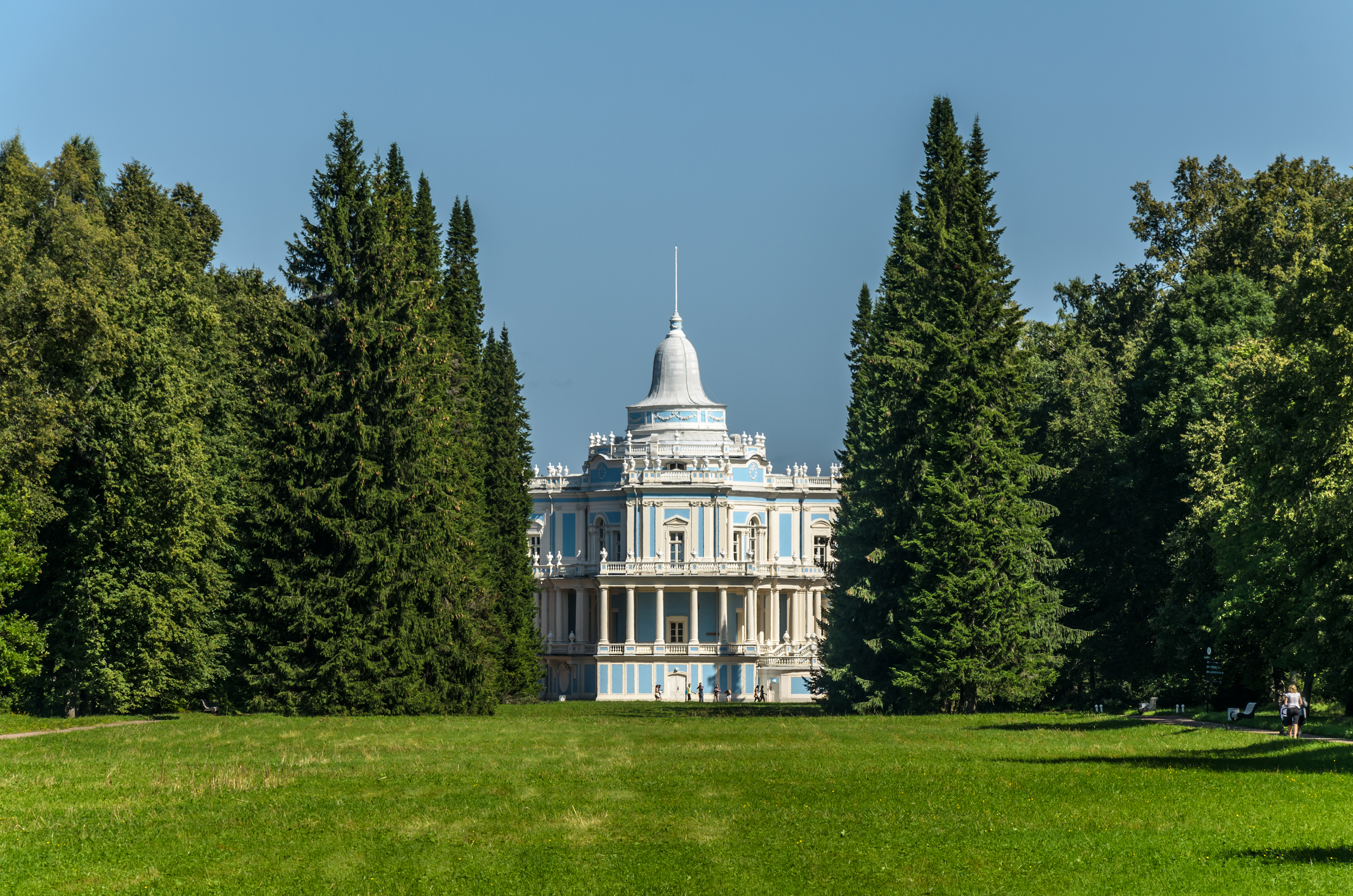 Sledging Hill Pavilion in Oranienbaum Park